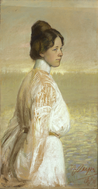 Portrait of Marie Under Kumu Native nameKumu KunstimuuseumParent institutionArt Museum of Estonia LocationTallinnCoordinates59° 26′ 11″ N, 24° 47′ 47″ E Established2006Web page control : Q919611 VIAF: 141567616 LCCN: no2008020839 GND: 10189770-4 WorldCat institution QS:P195,Q919611